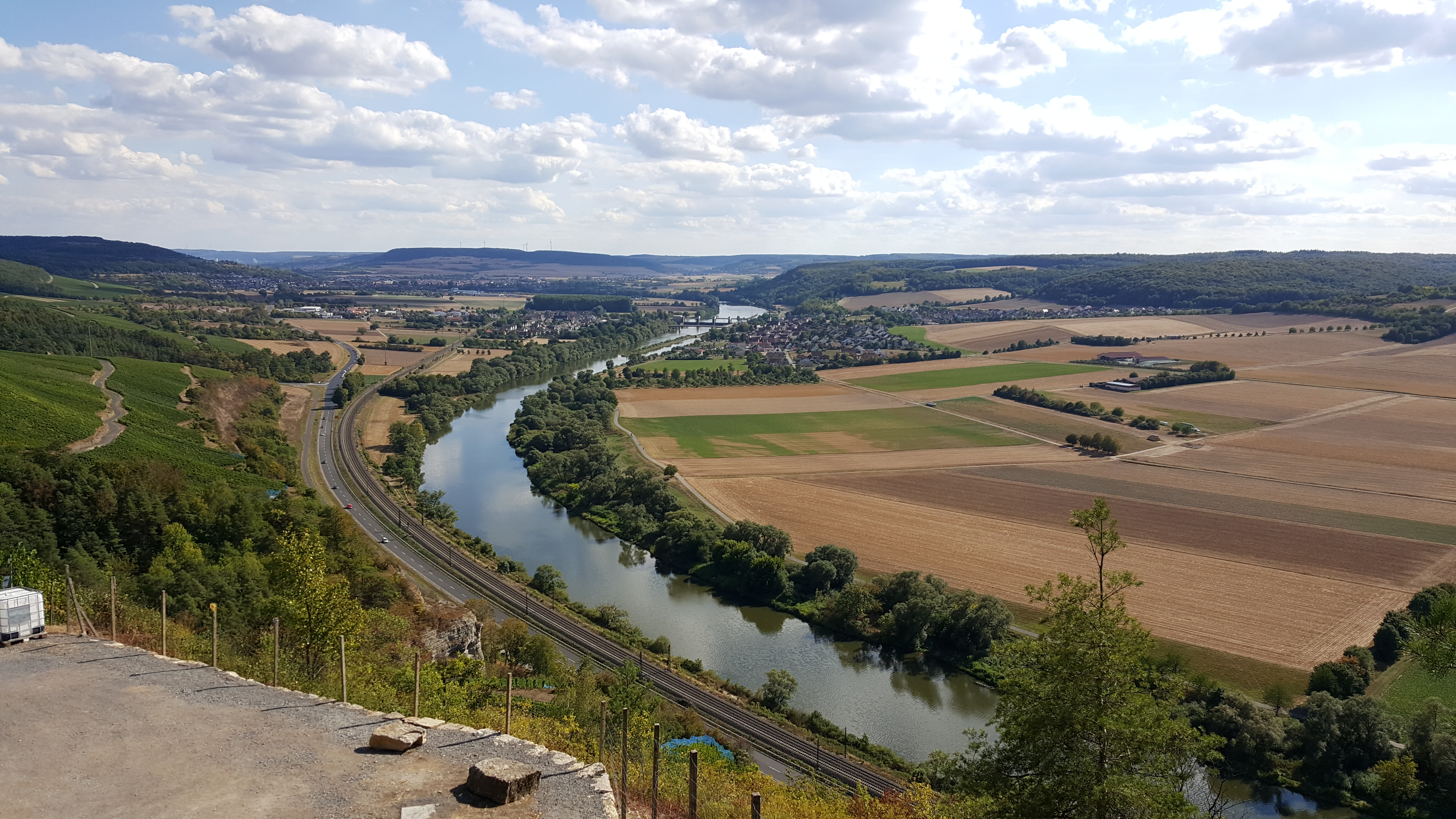 Main, B27 and Himmelstadt from TerroirF Point